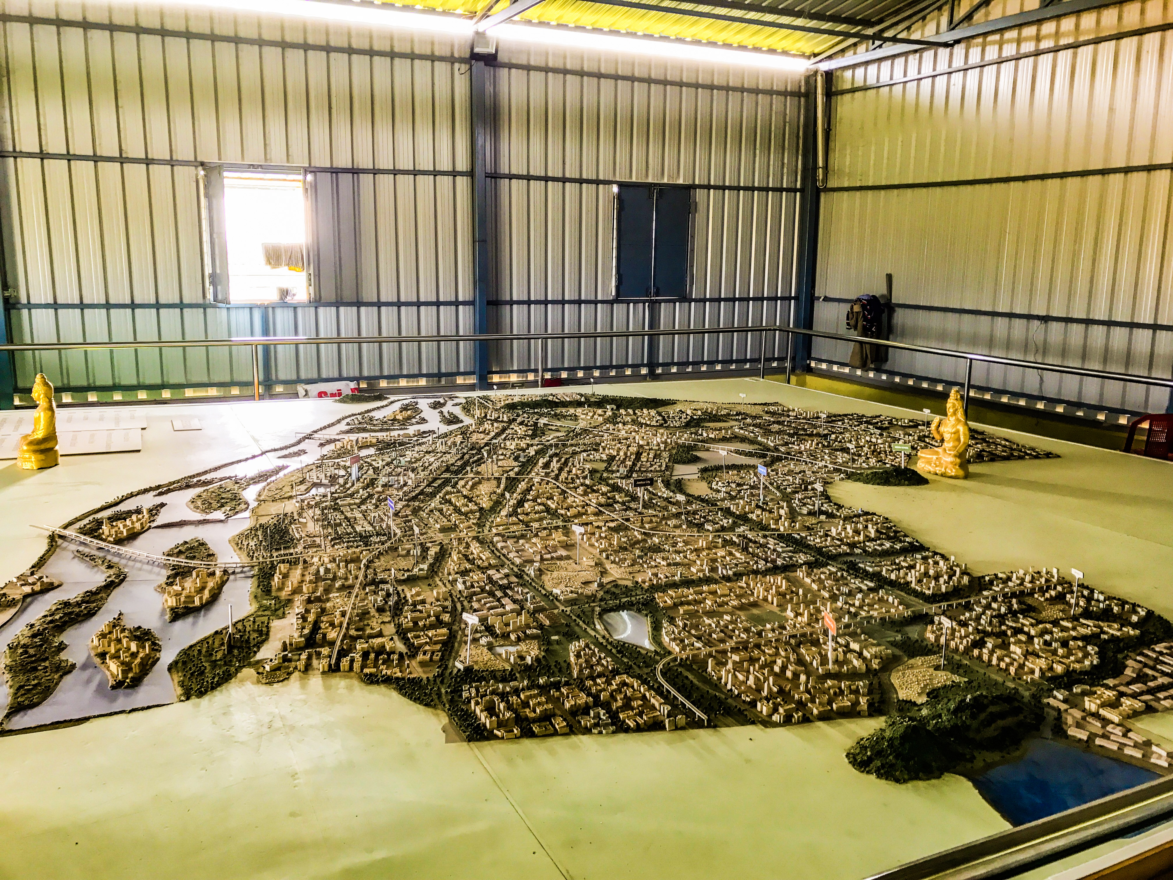 3D printed plan of Amaravati city